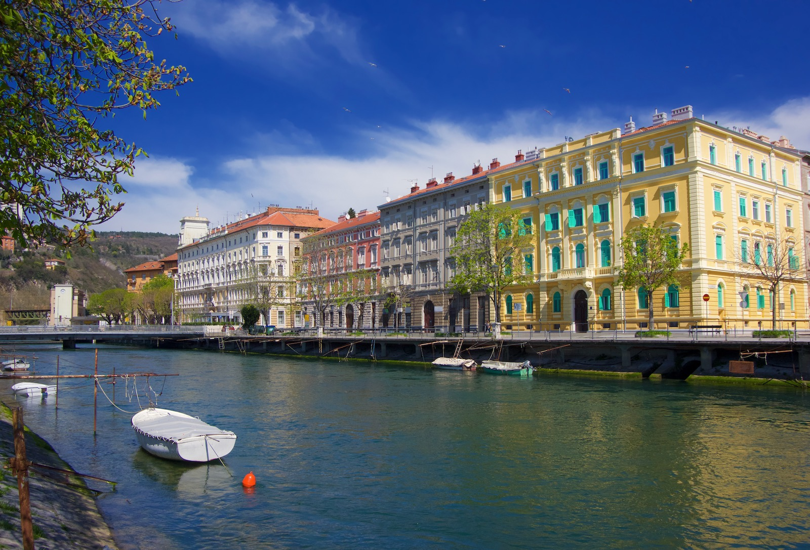 Rijeka - River Rječina